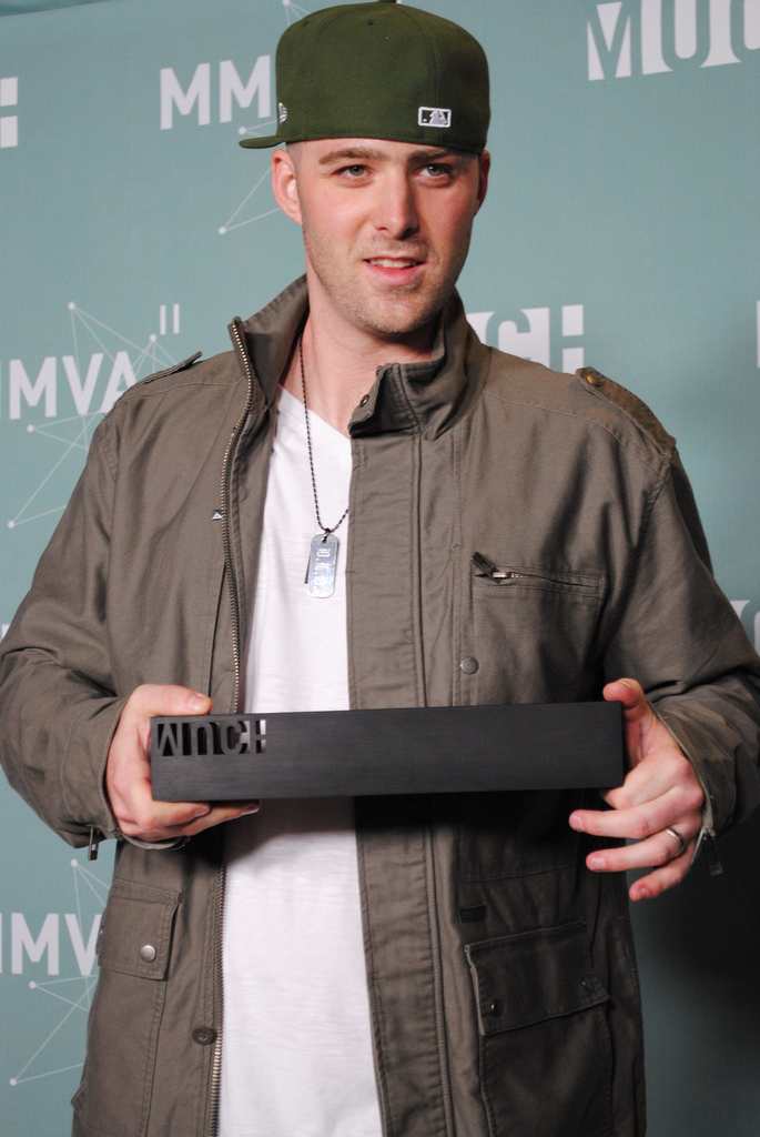 Luke Boyd, better known as Classified, at the 2011 MuchMusic Video Awards